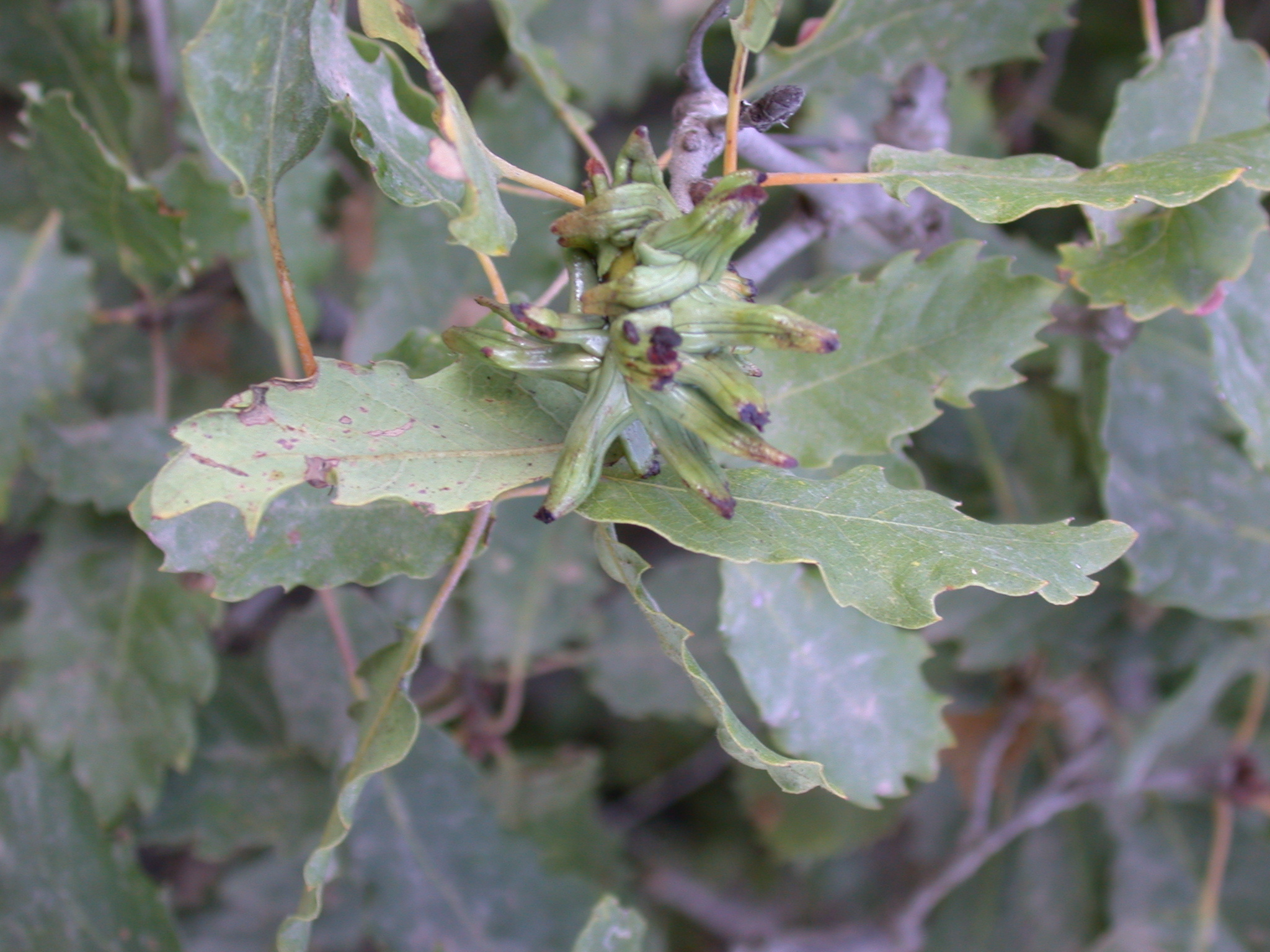 Gall on Quercus boissieri, Mount Meron, Upper Galilee, Israel, October 10, 2006.